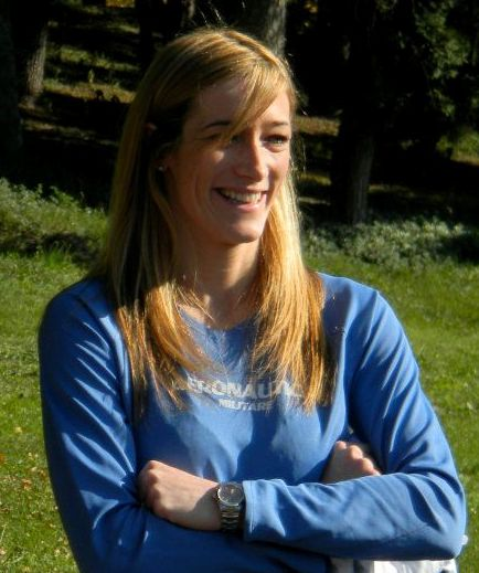 Italian athlete Manuela Levorato visit in Paderno del Grappa in 2011